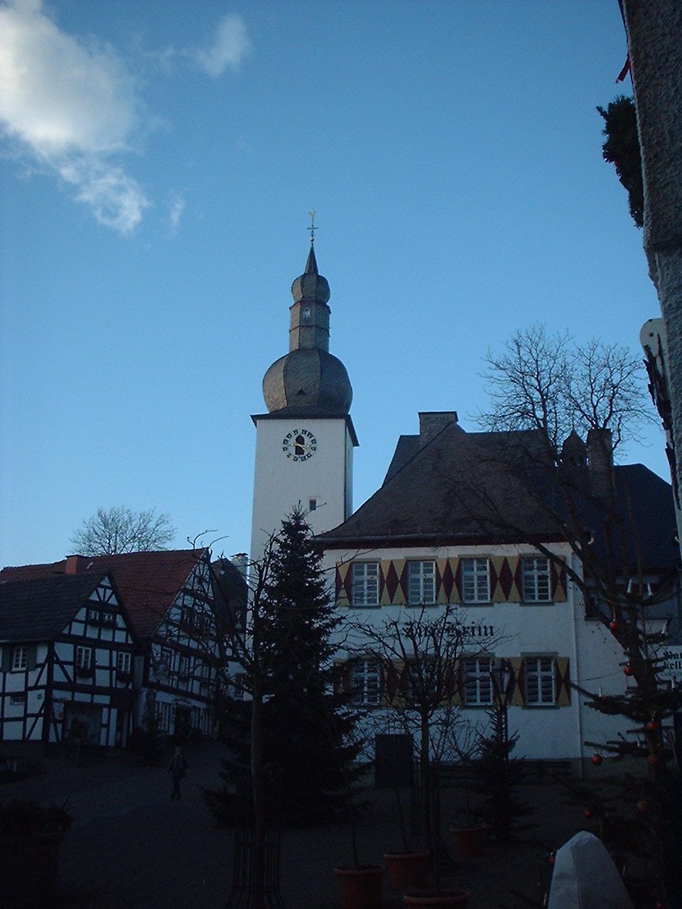 Glockenturm and Haus zur Krim with a Christmastree